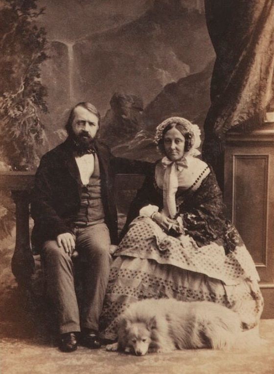 "M. & Lady Mildred Bedford [sic] Hope, & Chien", albumen print (81 mm x 56 mm) purchased in 1904 (NPG Ax50337).